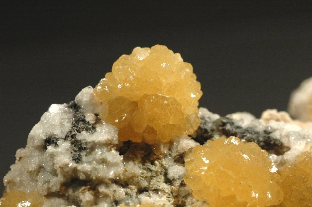 Stellerite Locality: Sokolovskoe Iron Mine (Sokolovskiy Mine; Sokol'noye Mine), Rudny, Qostanai Region, Kazakhstan (Locality at ) Field of view 3 cm. Photo: Tim Welting, specimen: Leon Hupperichs.